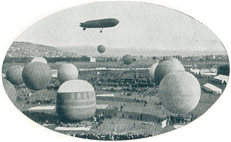 Translation of original caption: The Parseval-airship "des Kaiserliche Aero-Clubs" (of the Imperial air-club) during the Gordon-Bennett race in Zürich.